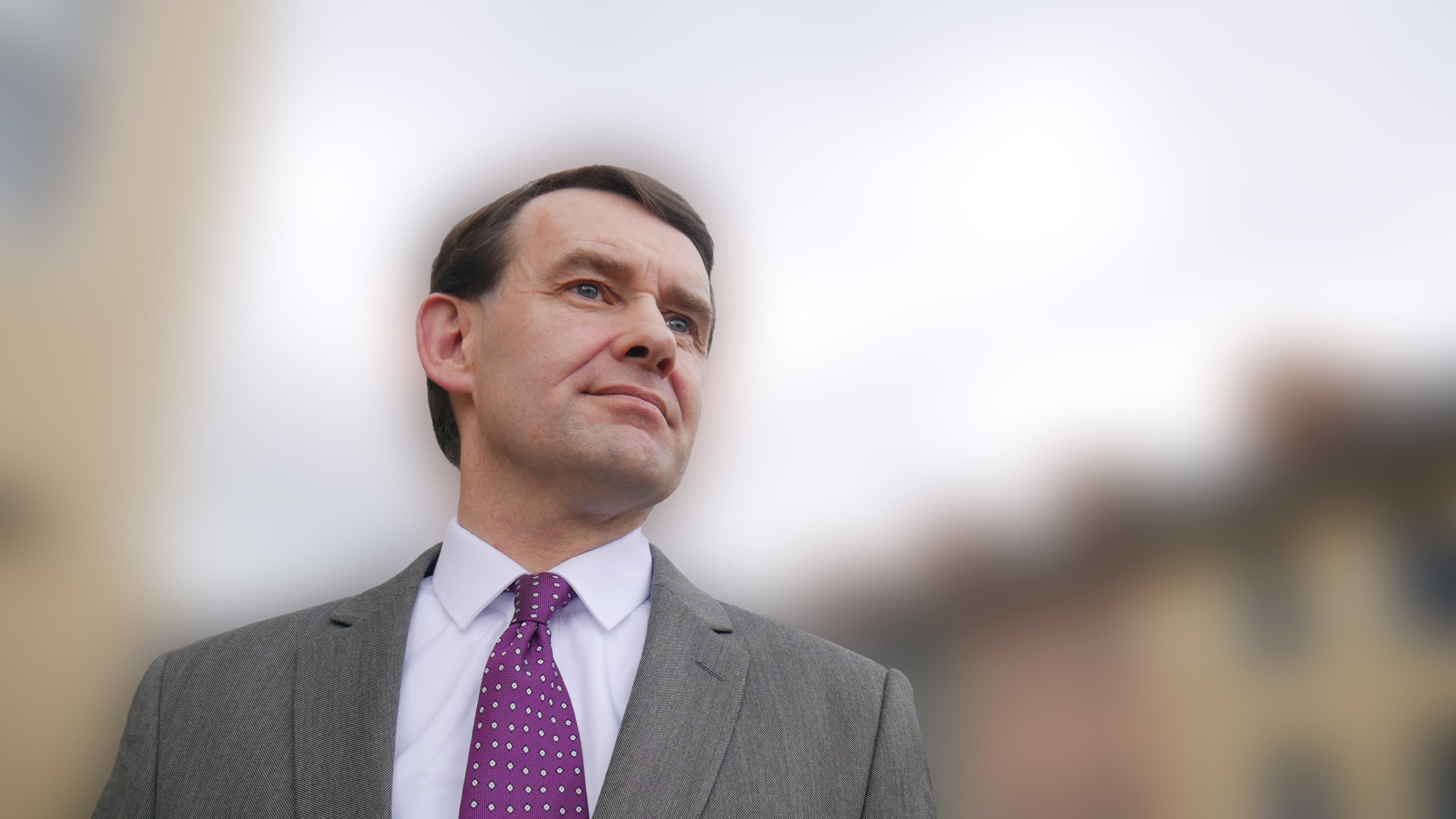 Party President Justin Barrett. Event in Cork February 2017